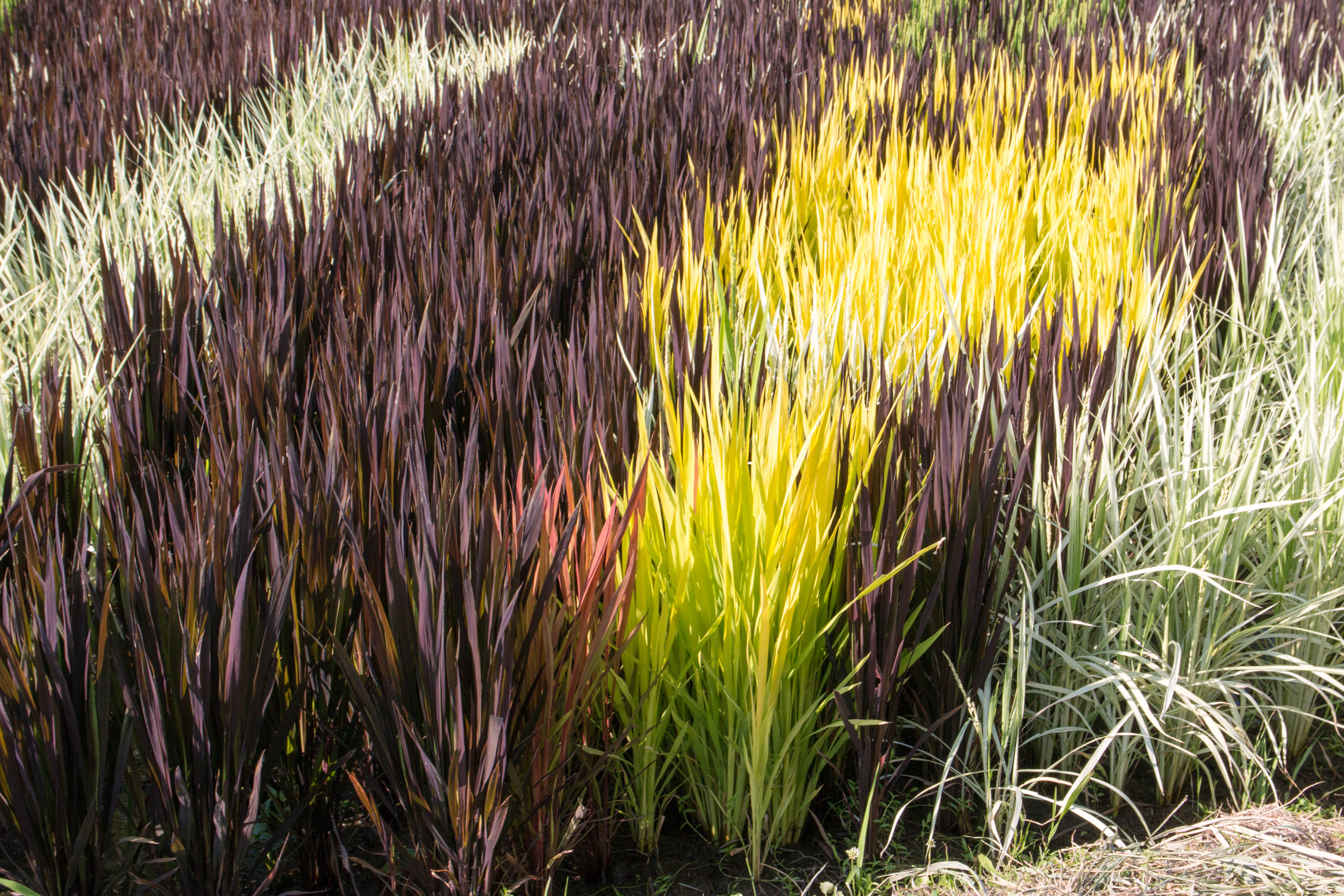 Japan: tambo art in Inakadate (Aomori prefecture).